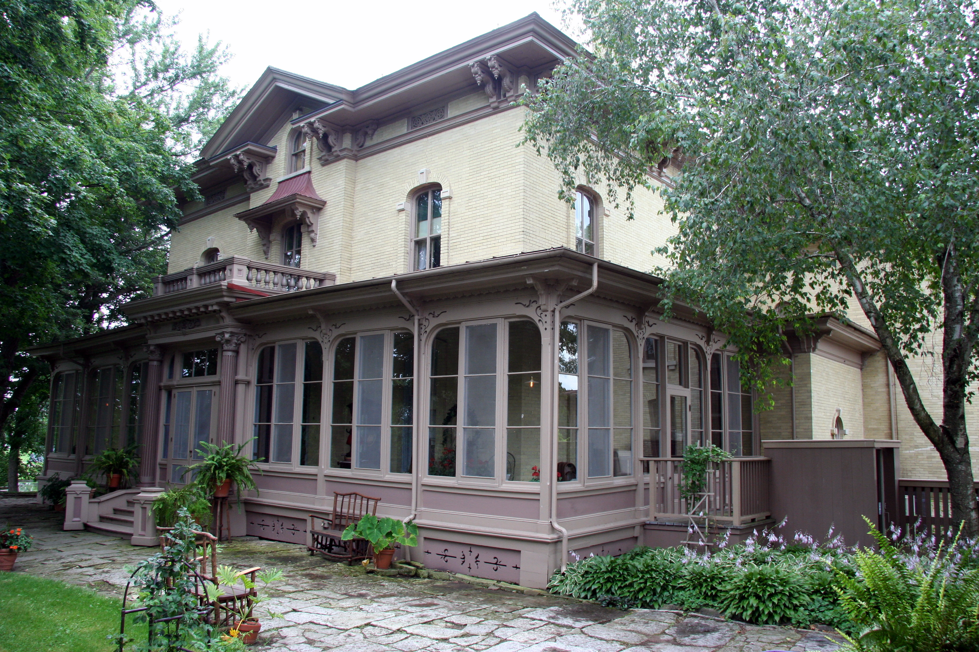 The Villa Louis or Dousman Mansion seen from the northest, on Saint Feriole Island in Prairie du Chien, Wisconsin